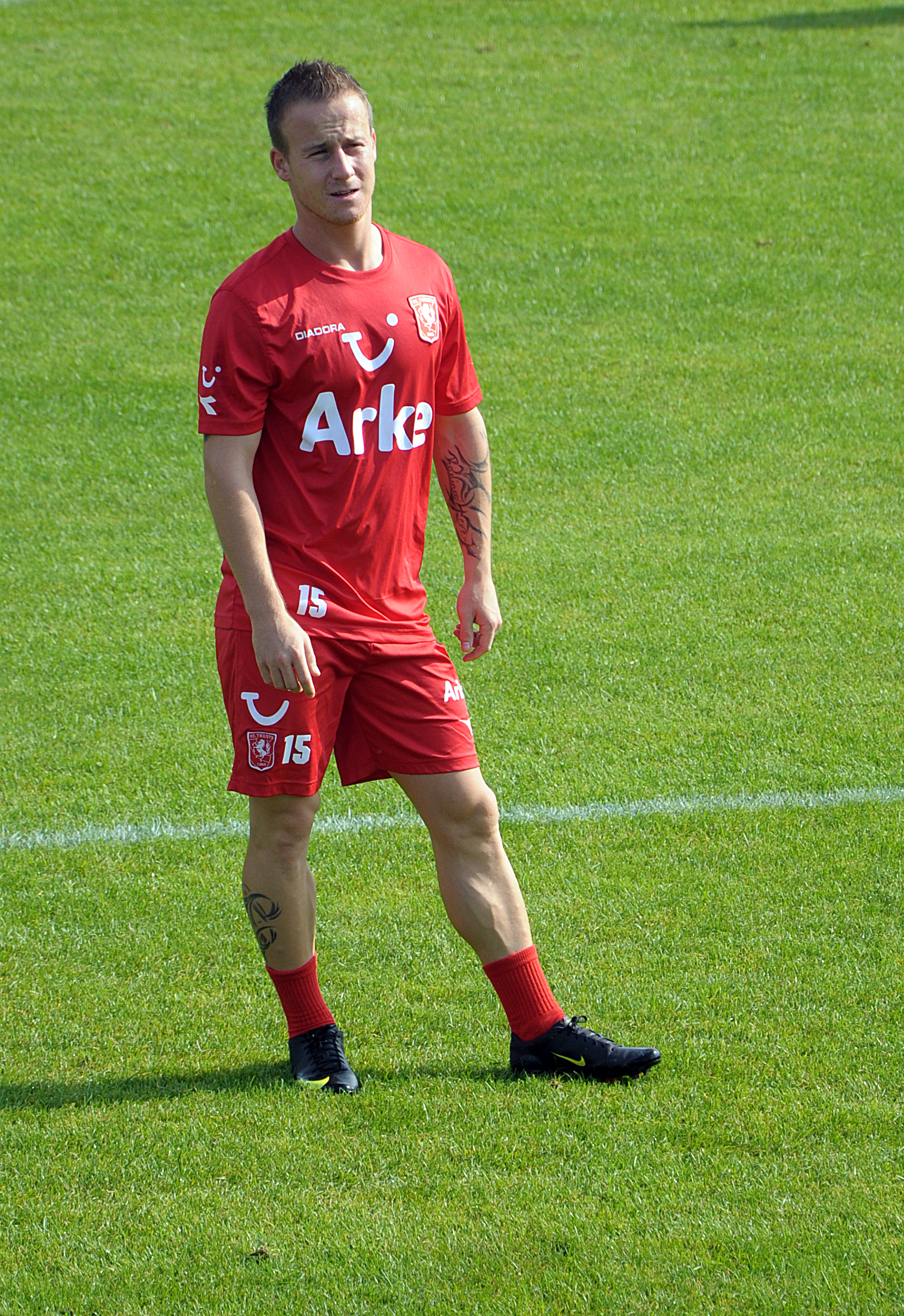 Miroslav Stoch Fc Twente